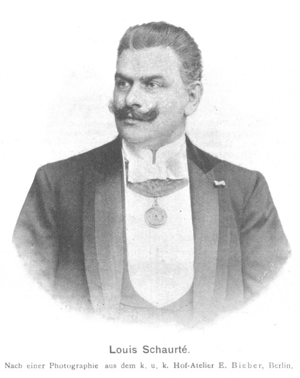 Portrait of Louis Schaurté (1851-1934), hotel owner in Berlin.